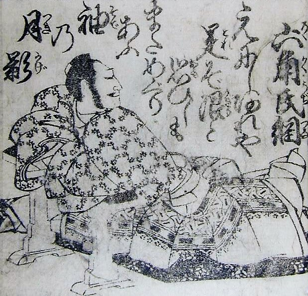 ujituna_rokkaku